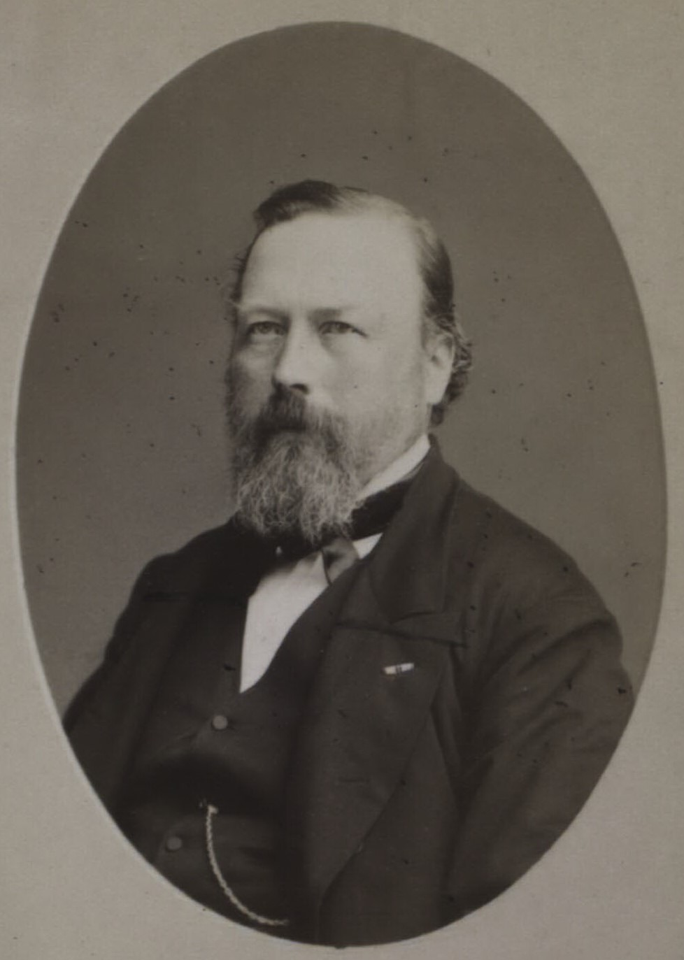 Danish district officer in Iceland, President of the Copenhagen Magistrate, Minister of the Interior Søren Hilmar Steindór Finsen (1824-1886)